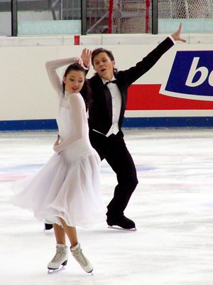 Olga ORLOVA and Anton SAULIN at the 2004 Junior Grand Prix event in Germany